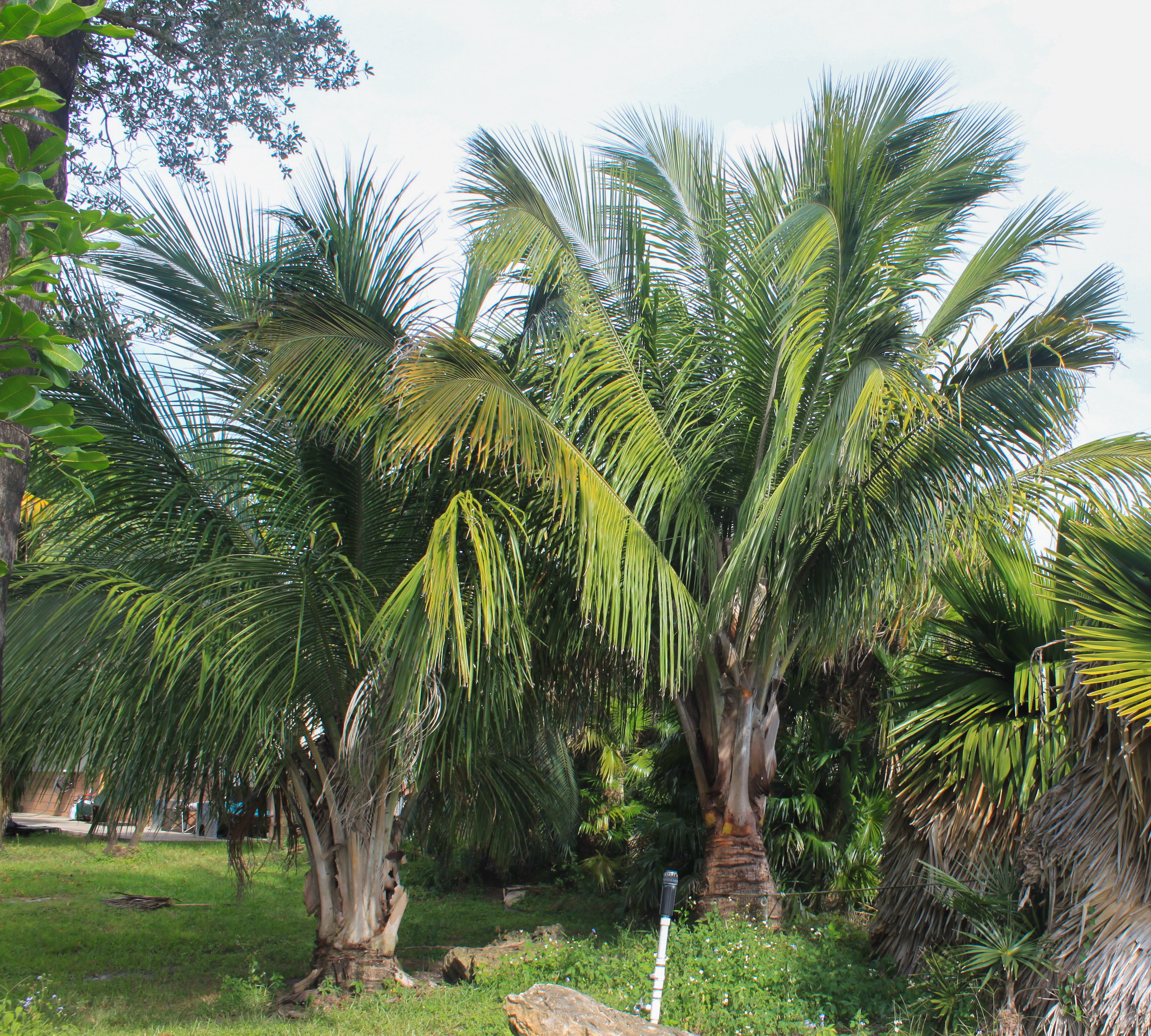 Pair of young Beccariophoenix alfredii in Davie, Florida.